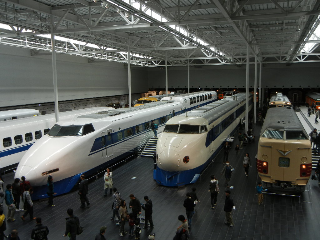 SCMAGLEV_and_Railway_Rark. 愛知県名古屋市にある鉄道に関する博物館「リニア・鉄道館」, Nagoya.